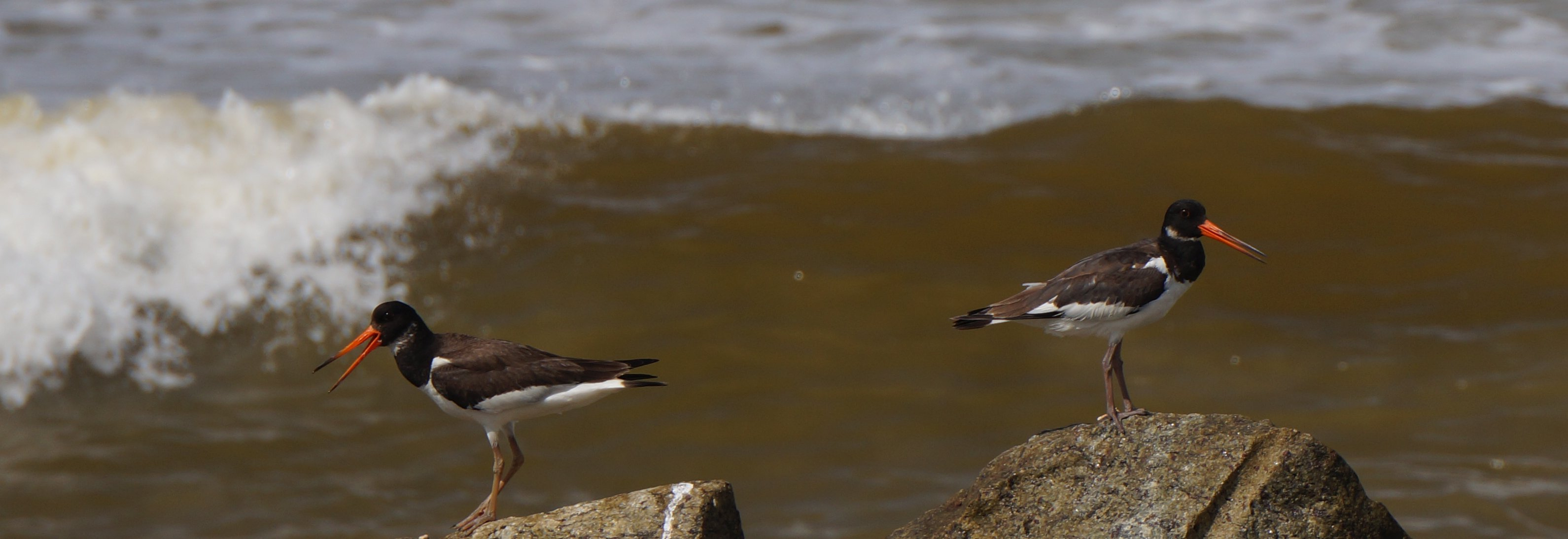 Eurasian oystercatcher (Haematopus ostralegus).